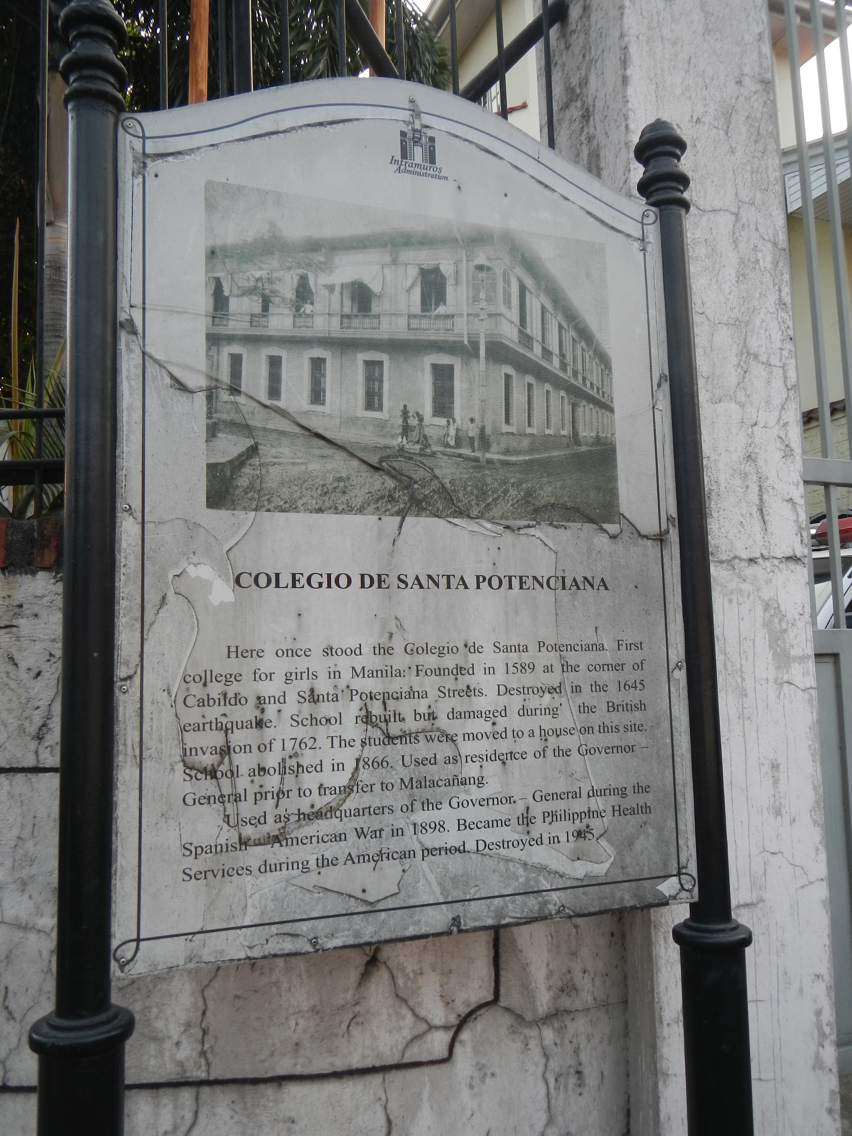 Intramuros (Genral Luna St., [George J. Willmann, S.J. memorial, monument, in Knights of Columbus building, Casa Maritima, Colegio de Santa Potenciana, Patio Victoria, Sofia Garden, Lourdes Church and Convent, Silahis, Emporium of Philippine Art, Craft and Culture, El Amanecer, Ilustrado Restaurant, Associated Marine Officers and Seamen's Union of the Philippines PTGW0-ITF and DOLE building).